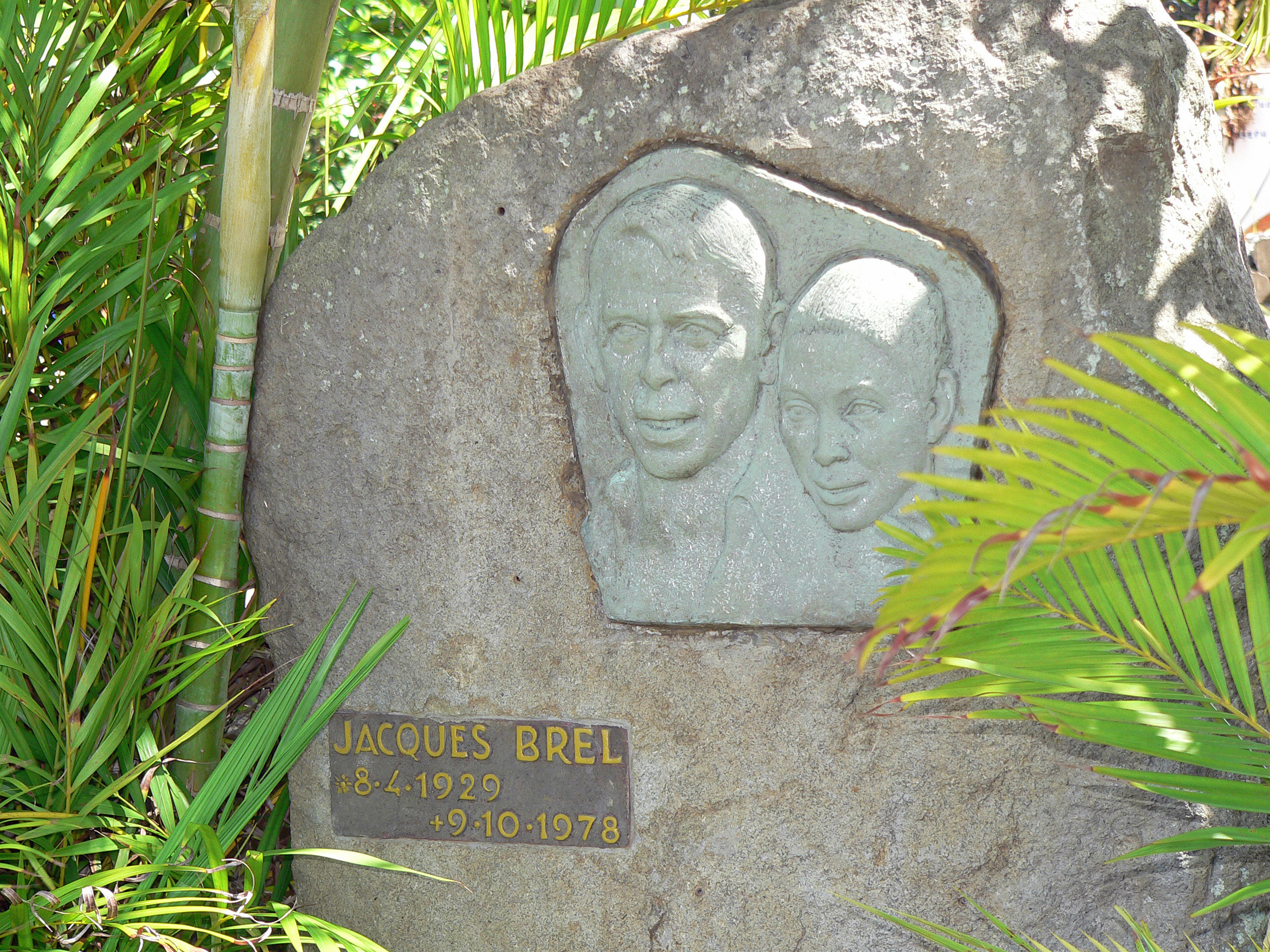 Jacques Brel's grave on Hiva Oa